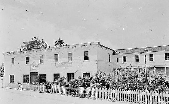 Robert Louis Stevenson House, 530 Houston Street, Monterey (Monterey County, California)(cropped)